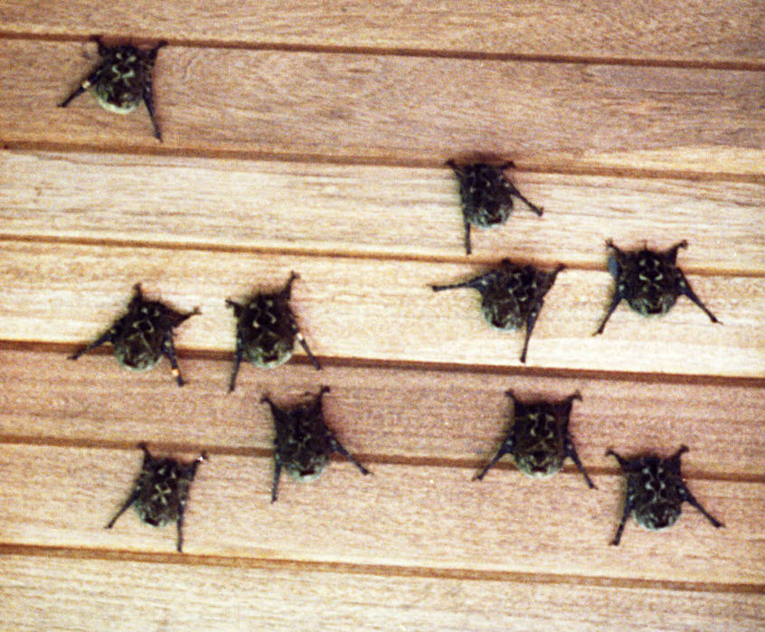 Group of Rhynchonycteris naso resting under a bungalow roof of La Selva Biological Station, Costa Rica.